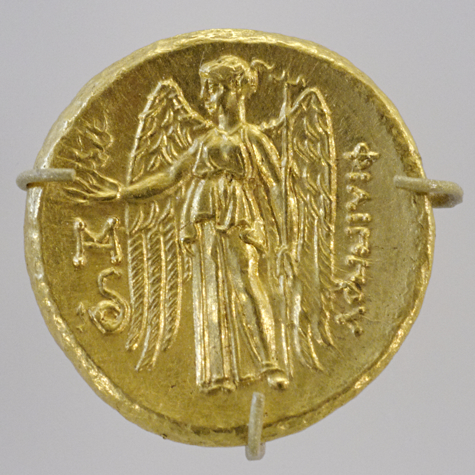 Nike standing left, wreath in right. Reverse of a gold stater minted in Abydos during the reign of Philip III or Philip IV of Macedon.